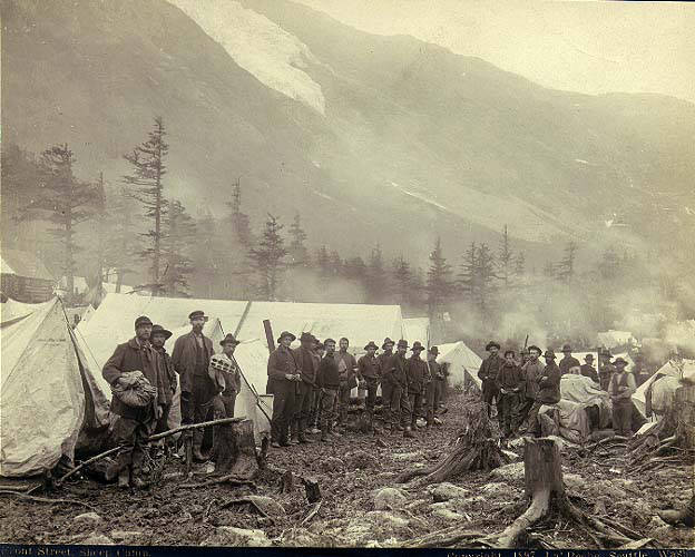 Caption on image: "Front Street, Sheep Camp. c1897" Depicts Jack London and fellow travelers Jim Goodman, Fred Thompson and Martin Tarwater . "Front Street at Sheep Camp settlement. This is the principal camp on the Dyea Trail. In August and September there were a thousand or more people encamped here. The log structure on the left was the leading hotel where you might eat for 75 cents and sleep on the floor for 50 cents, if you furnished your own bedding. Beyond here a meal could not be had at any price. This is right on the edge of what is known as the timber line. Thence to the other side is about ten miles. In all the district there is not sufficient wood to heat a cup of coffee, so you are obilged to carry your own wood of you want to camp within that distance." (Frank La Roche, En Route to the Klondike, 1898) Klondike Gold Rush. Subjects (LCTGM): Tents--Alaska Subjects (LCSH): Chilkoot Trail; Trails--Alaska; Sheep Camp (Alaska)